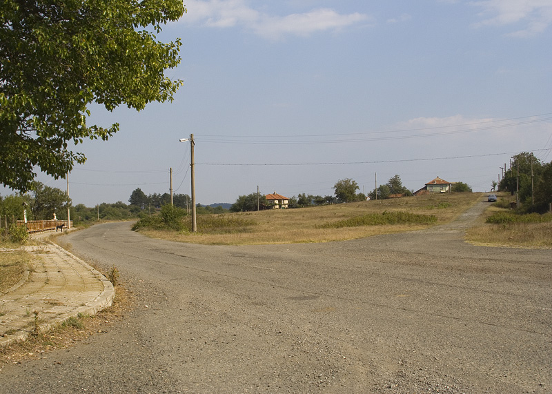 View from village Vizitsa, Bulgaria